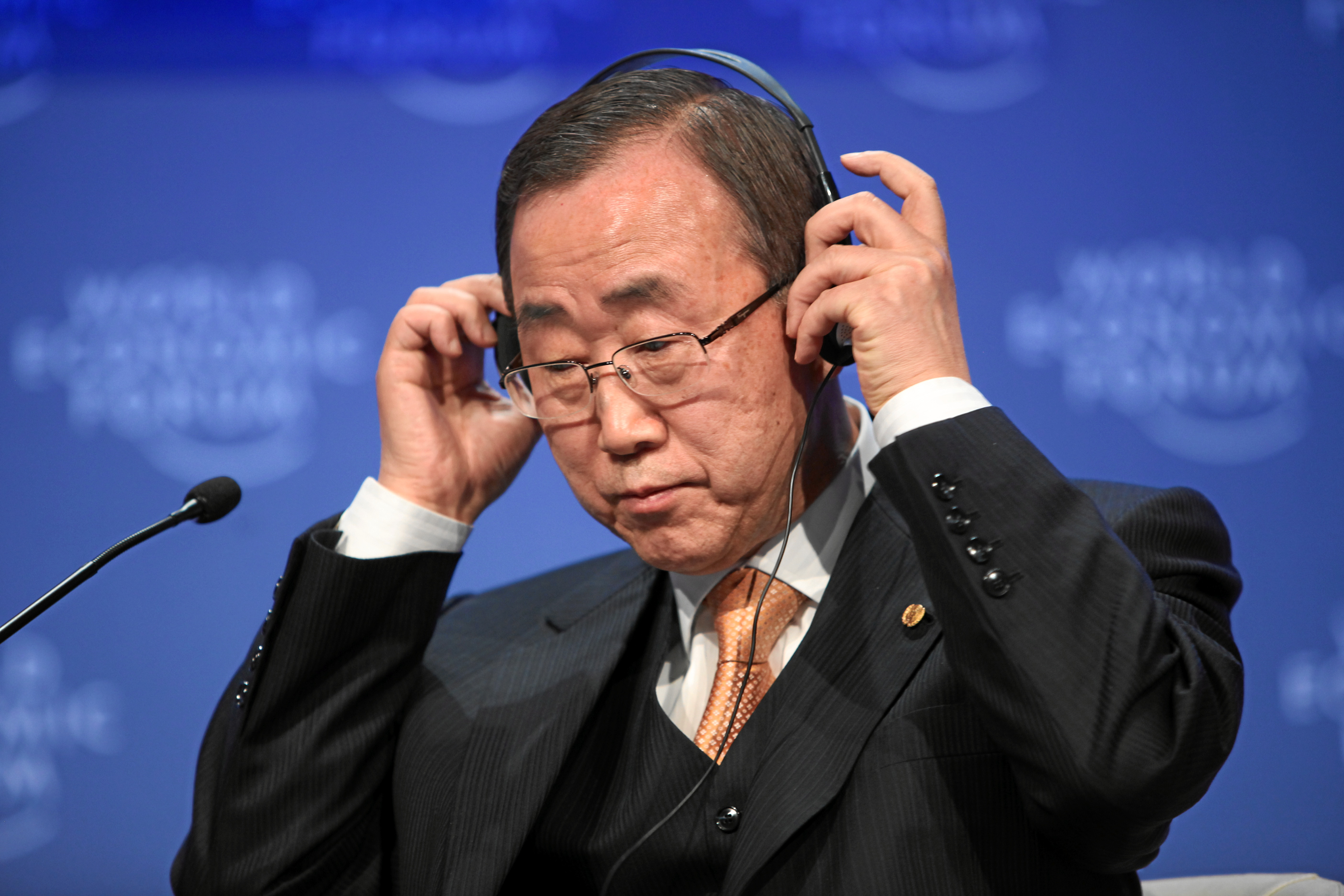 Ban Ki-moon, Secretary-General of the United Nations, spoken at the World Economic Forum Annual Meeting in Davos Municipality, Graubünden Canton on January 29, 2009.